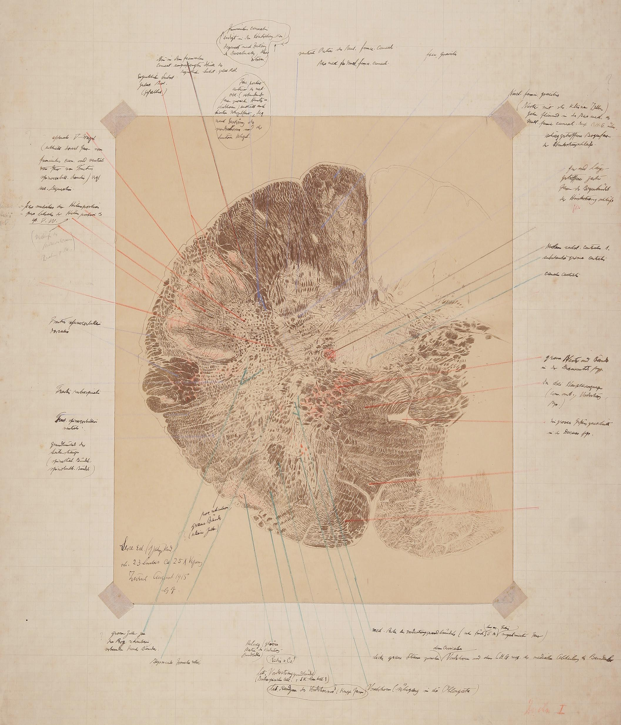 Plate from Gennosuke Fuse atlas of the anatomy of brainstem